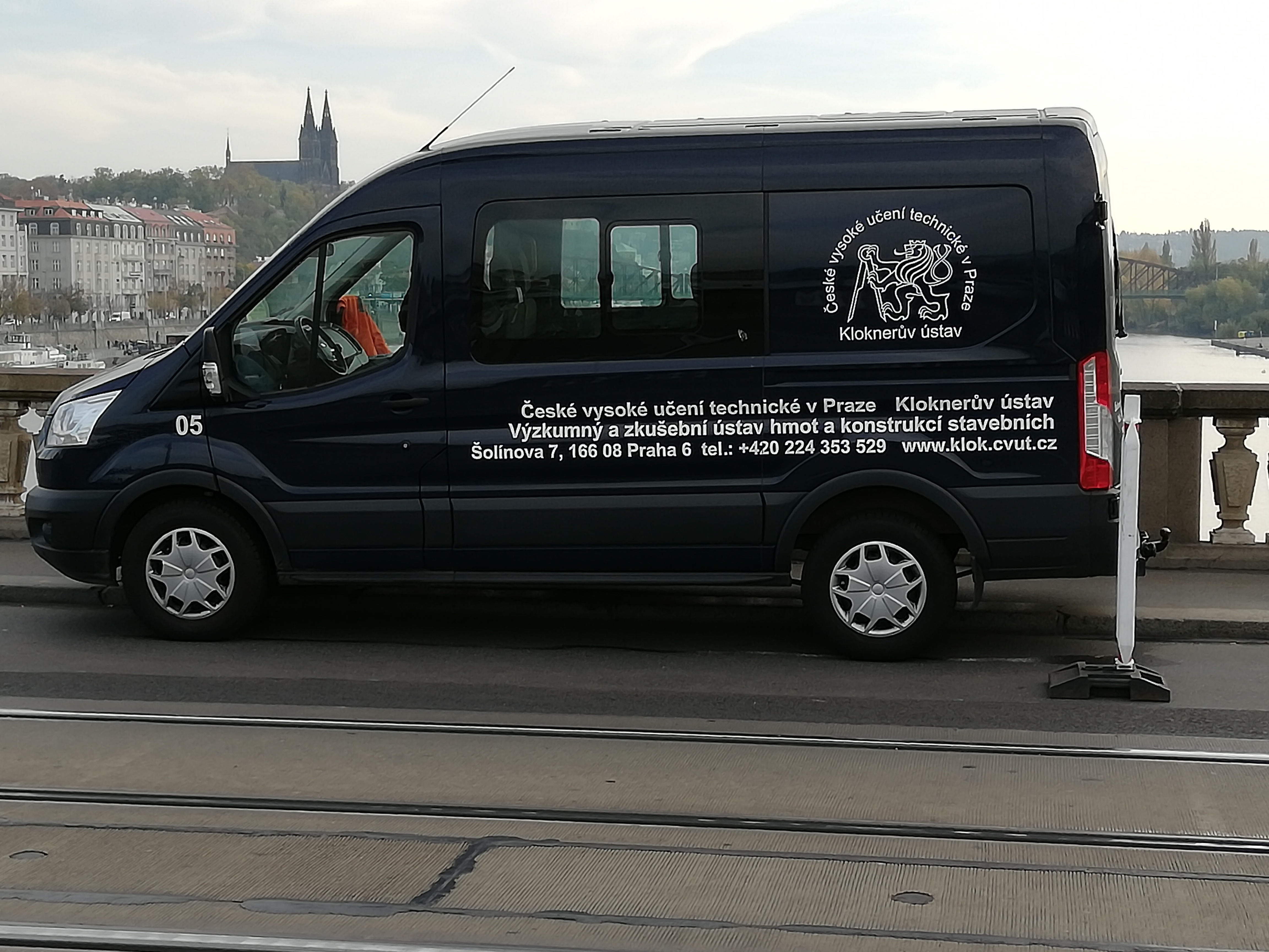 Car dedicated to measuring or service (temporrary parked on Palacký Bridge in Prague, Czech republic) owned by the Klokner Institute (Research and Testing Institute of Materials and Building Constructions), which is a part of the Czech Technical University in Prague.